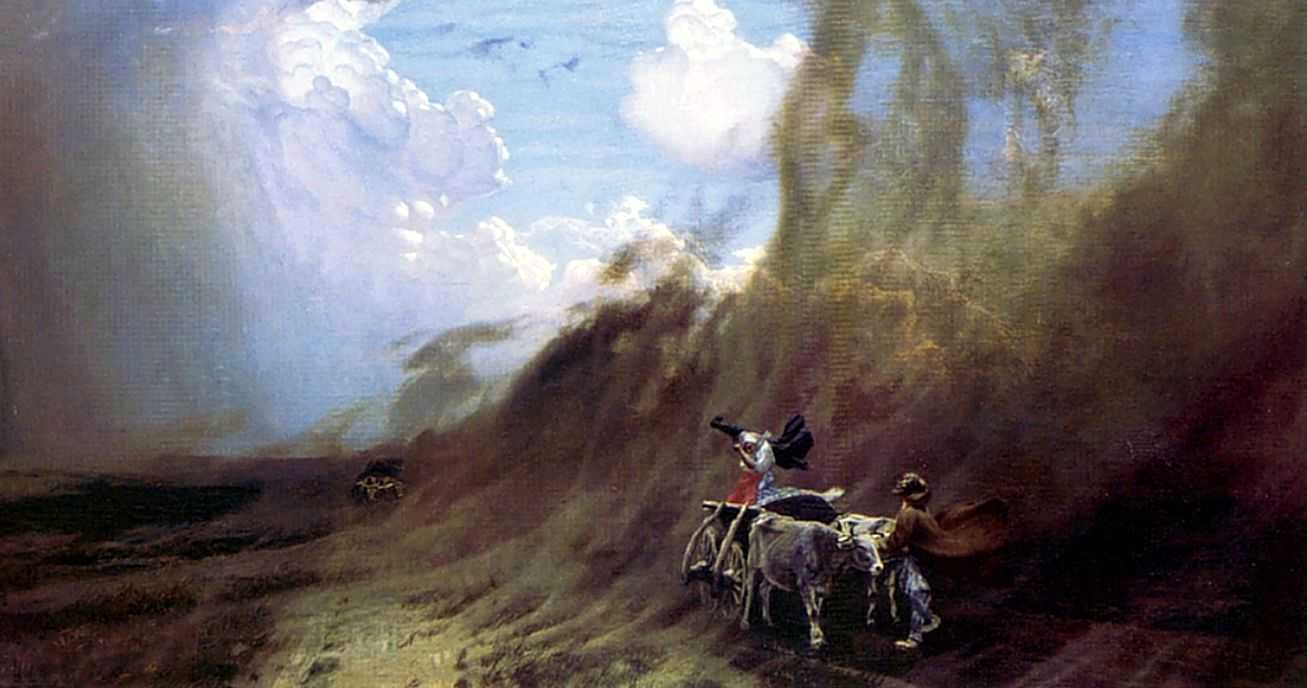 Hurricane in the steppe. 1890. Oil on canvas. Novocherkassk Museum of History of the Don Cossacks. Novocherkassk, Russian Federation